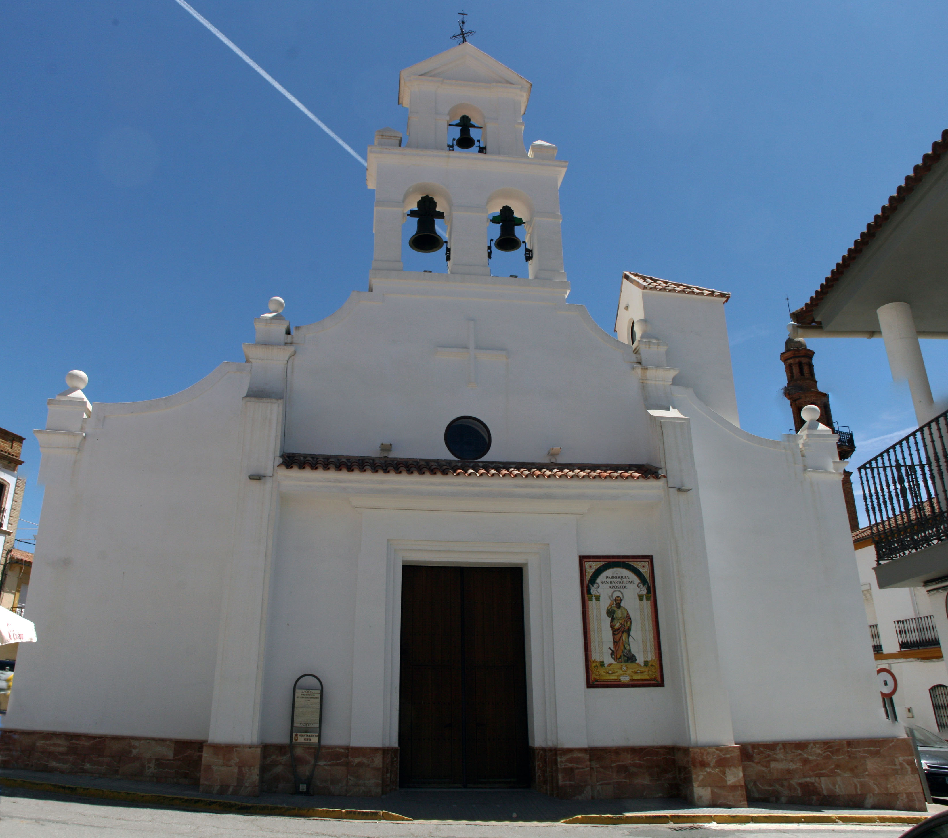 Facade of the San Bartolomé Parish